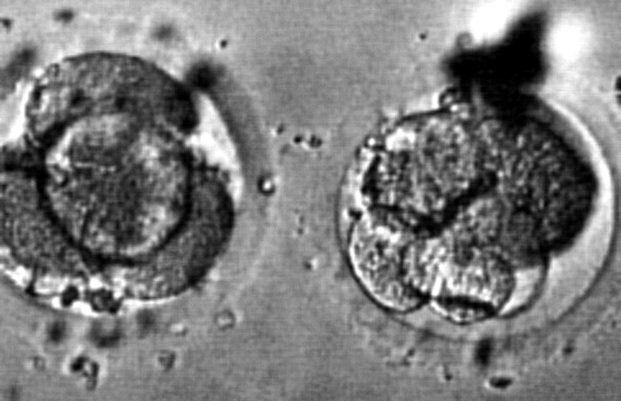 2 Follikel